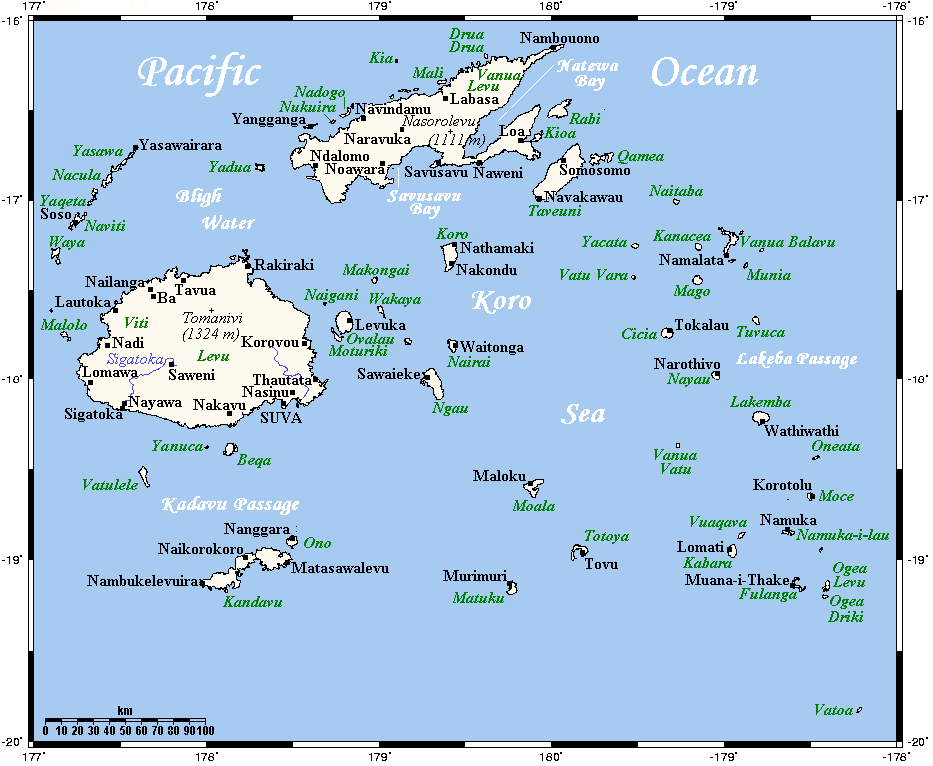 A map showing Fiji's cities and main towns. This map's source is here, with the uploader's modifications, and the GMT homepage says that the tools are released under the GNU General Public License.